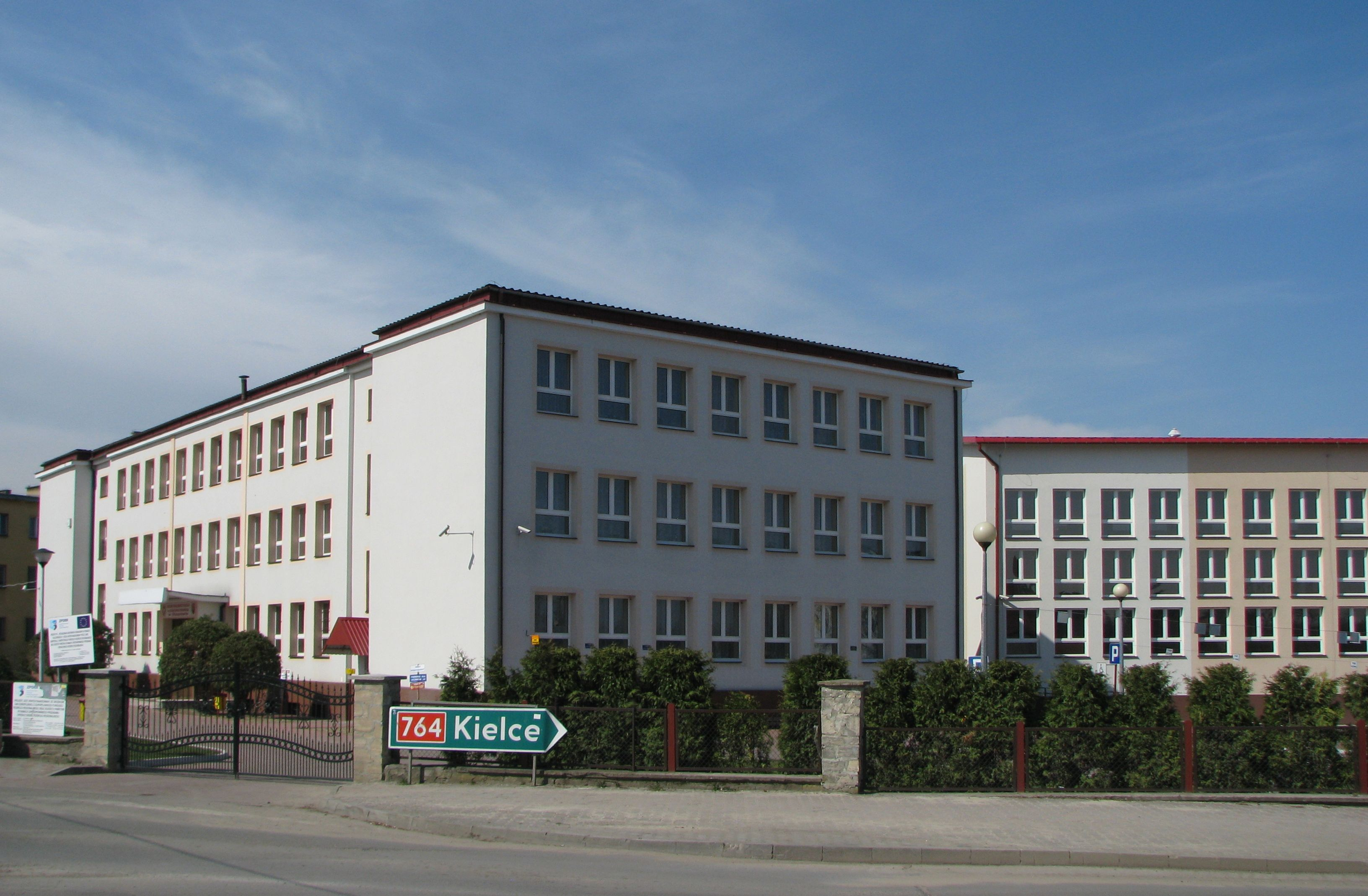 Secondary School in Staszów, Poland.